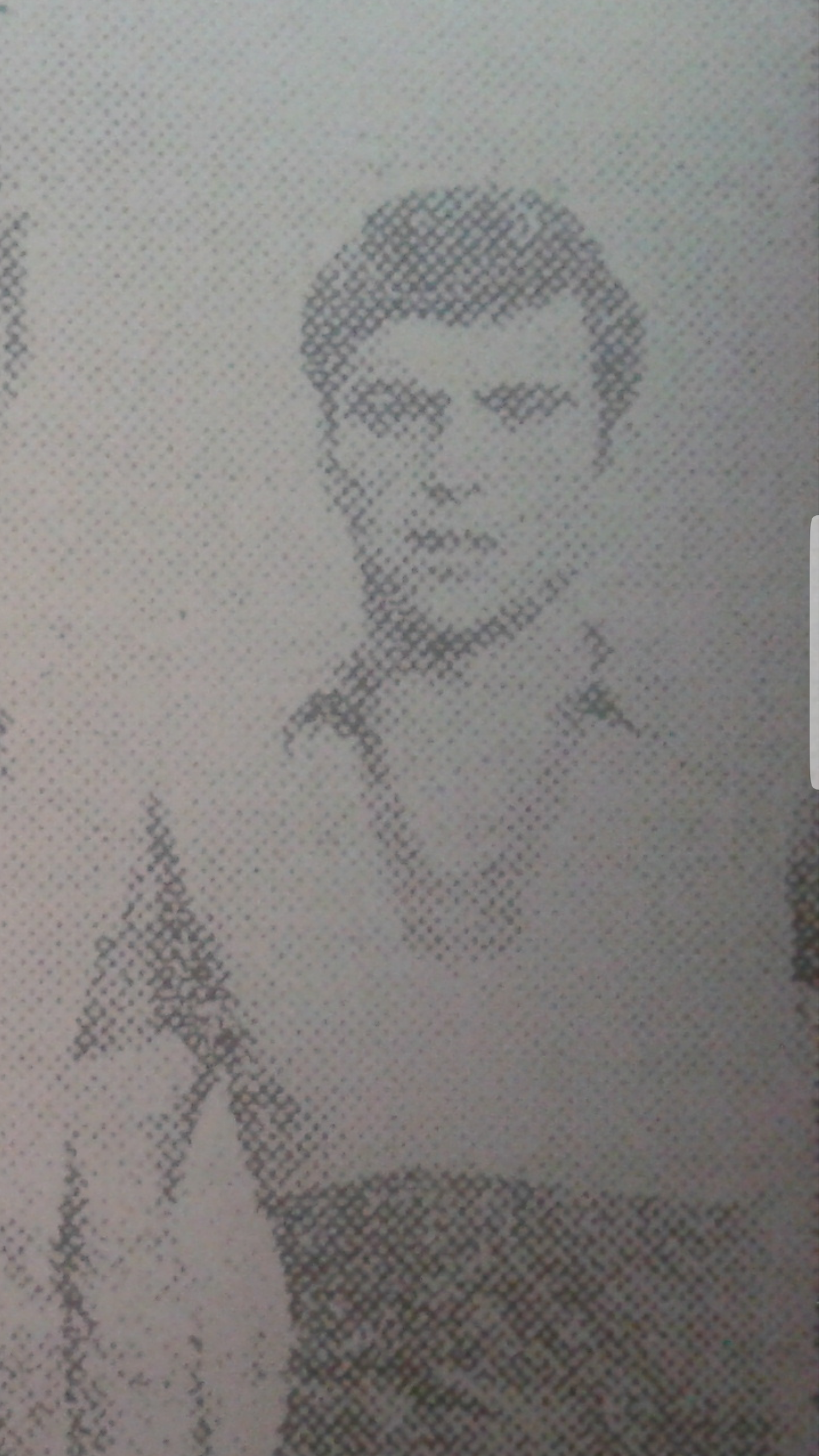 Dimitar Pavlov